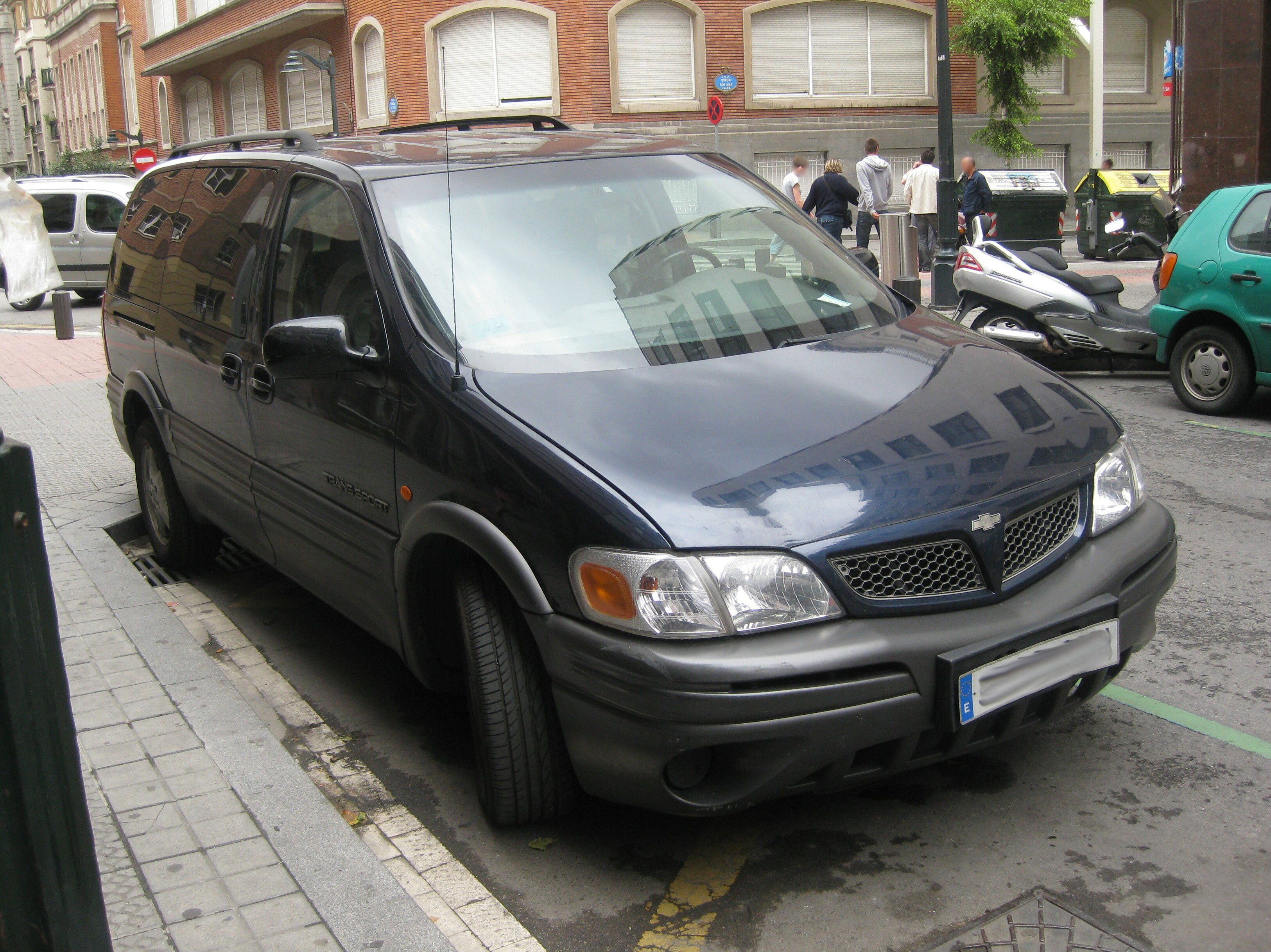 Front of the Pontiac Montana but badged as Chevy is how they sold this Amerian MPV in Europe, not very common but they still appear from time to time. I saw this one in Bilbao (Vizcaya).